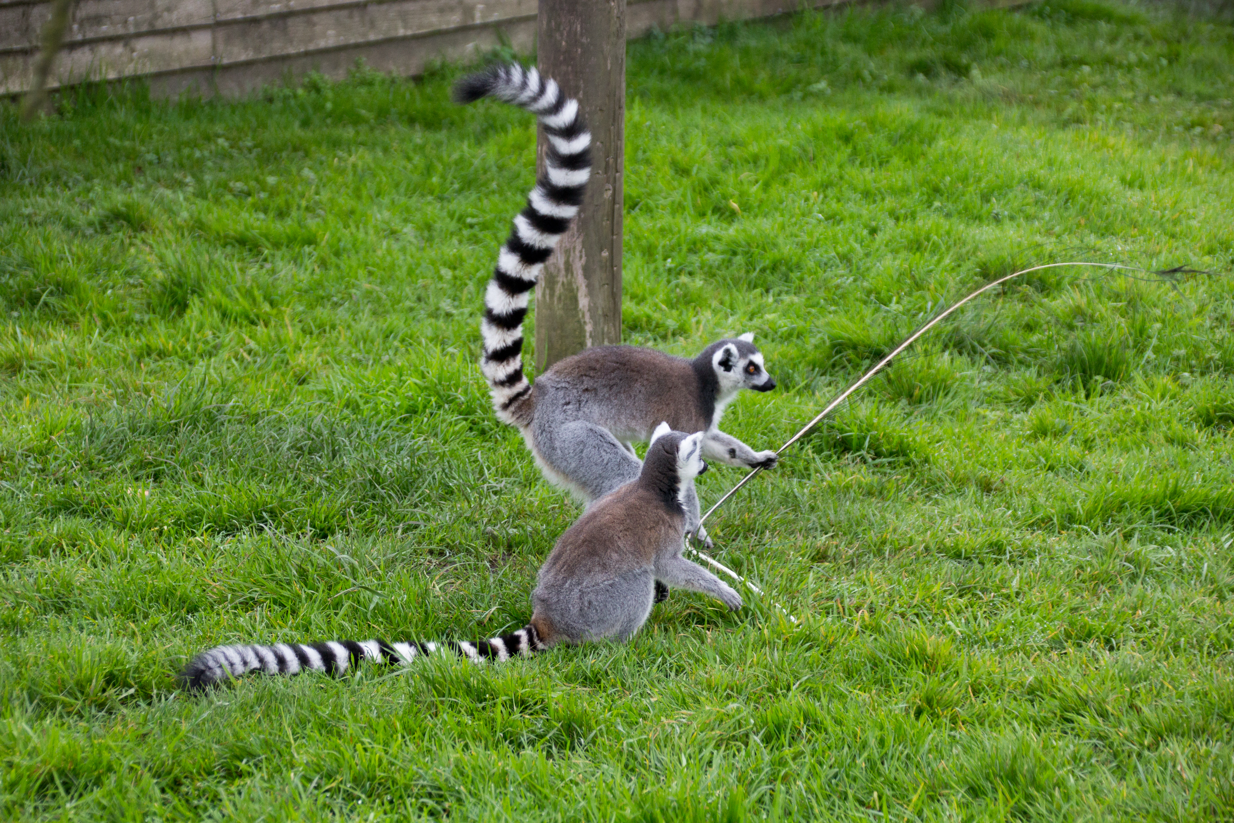 Peak Wildlife Park, near Leek, UK